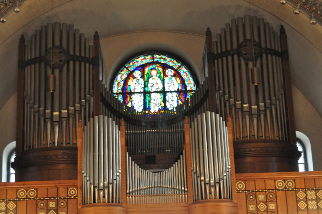 St. Nicolai-Kirche (Hannover-Bothfeld)